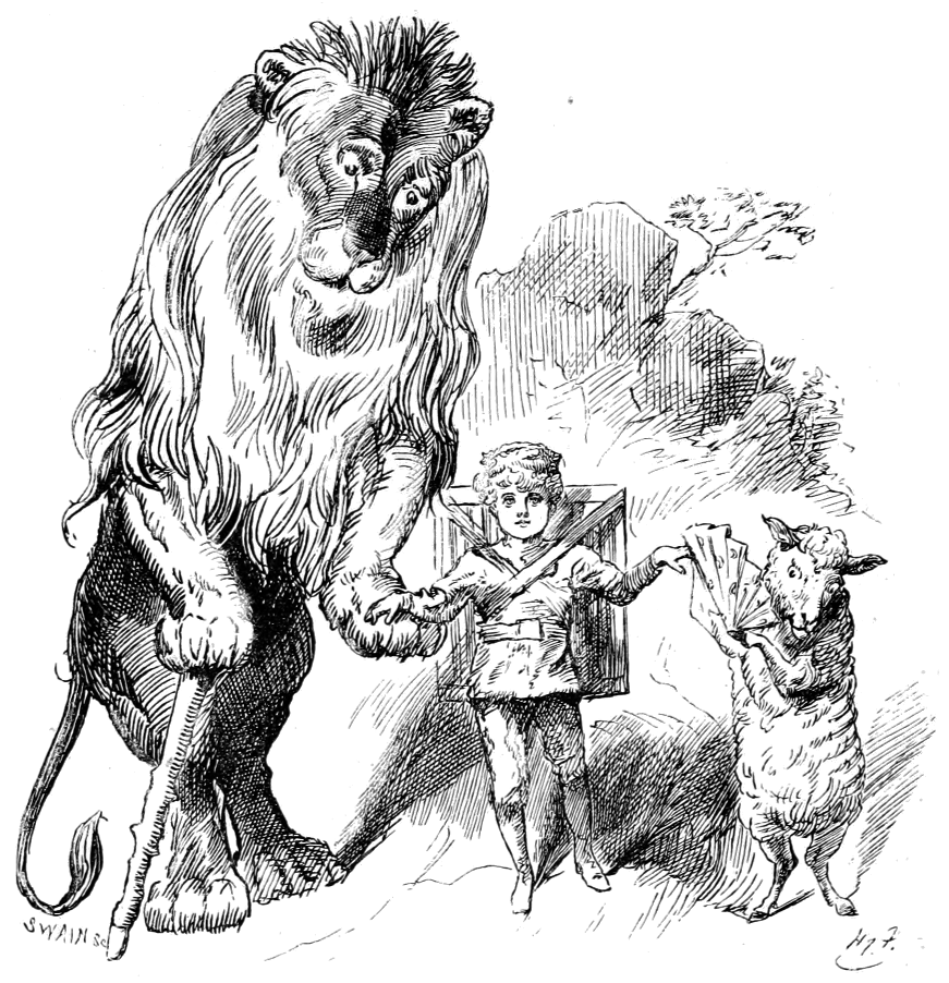 Illustration by Harry Furniss in Sylvie and Bruno Concluded